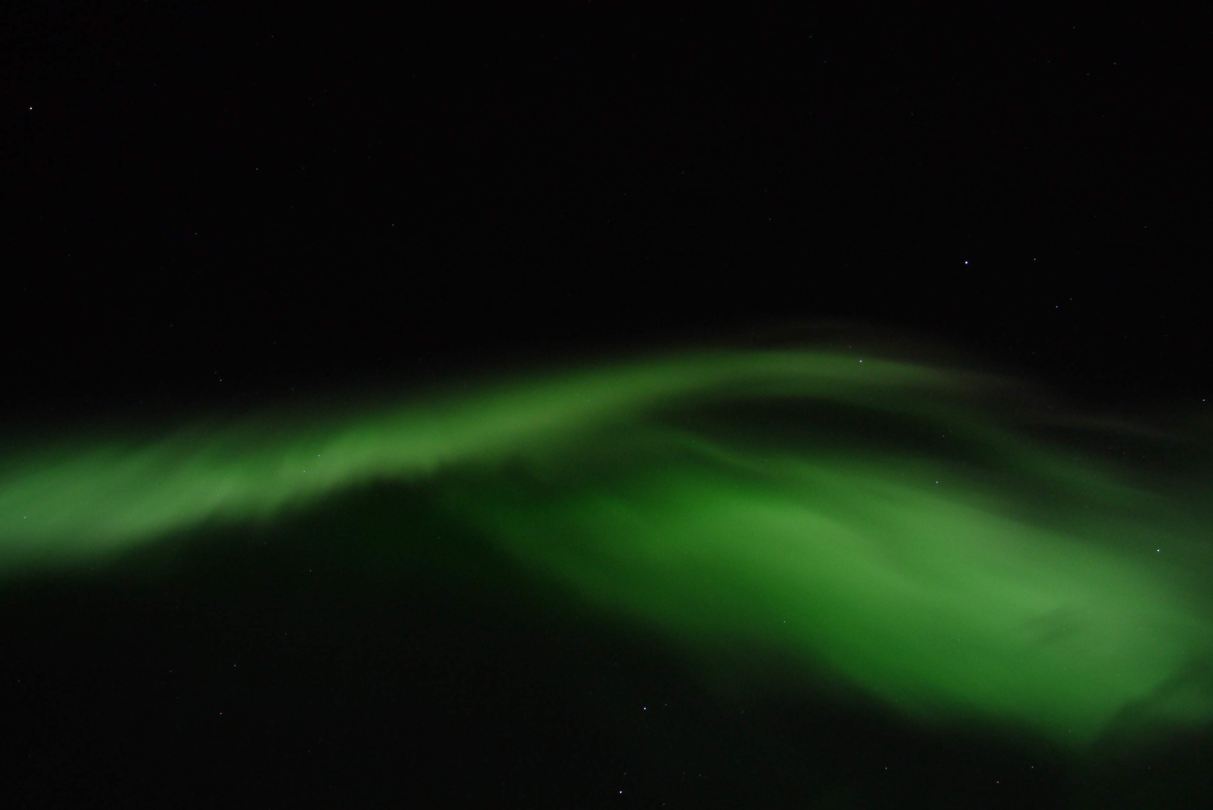 This photo was taken in Kiruna of Sweden.